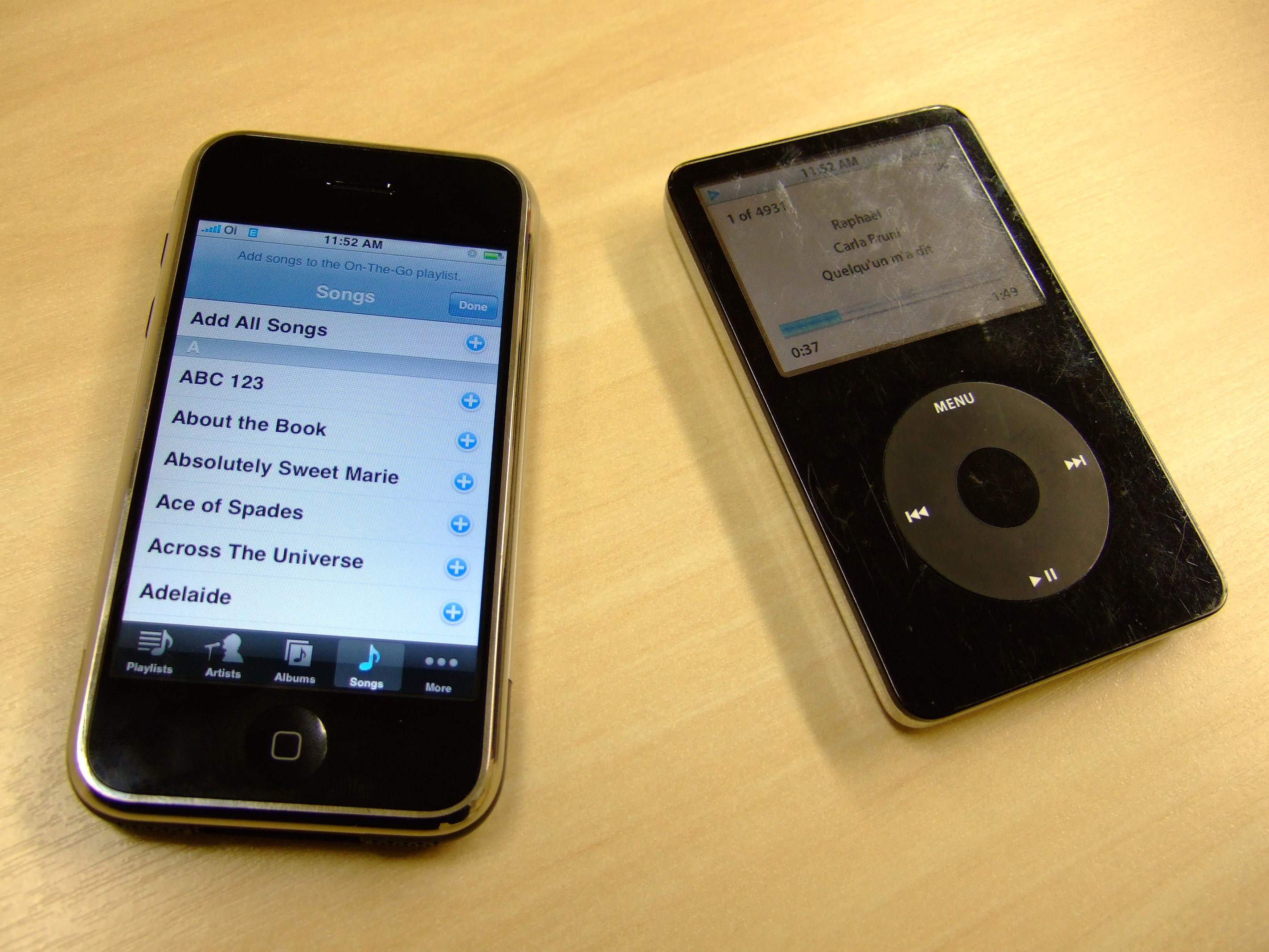 iPhone 3G and iPod Classic 5G.